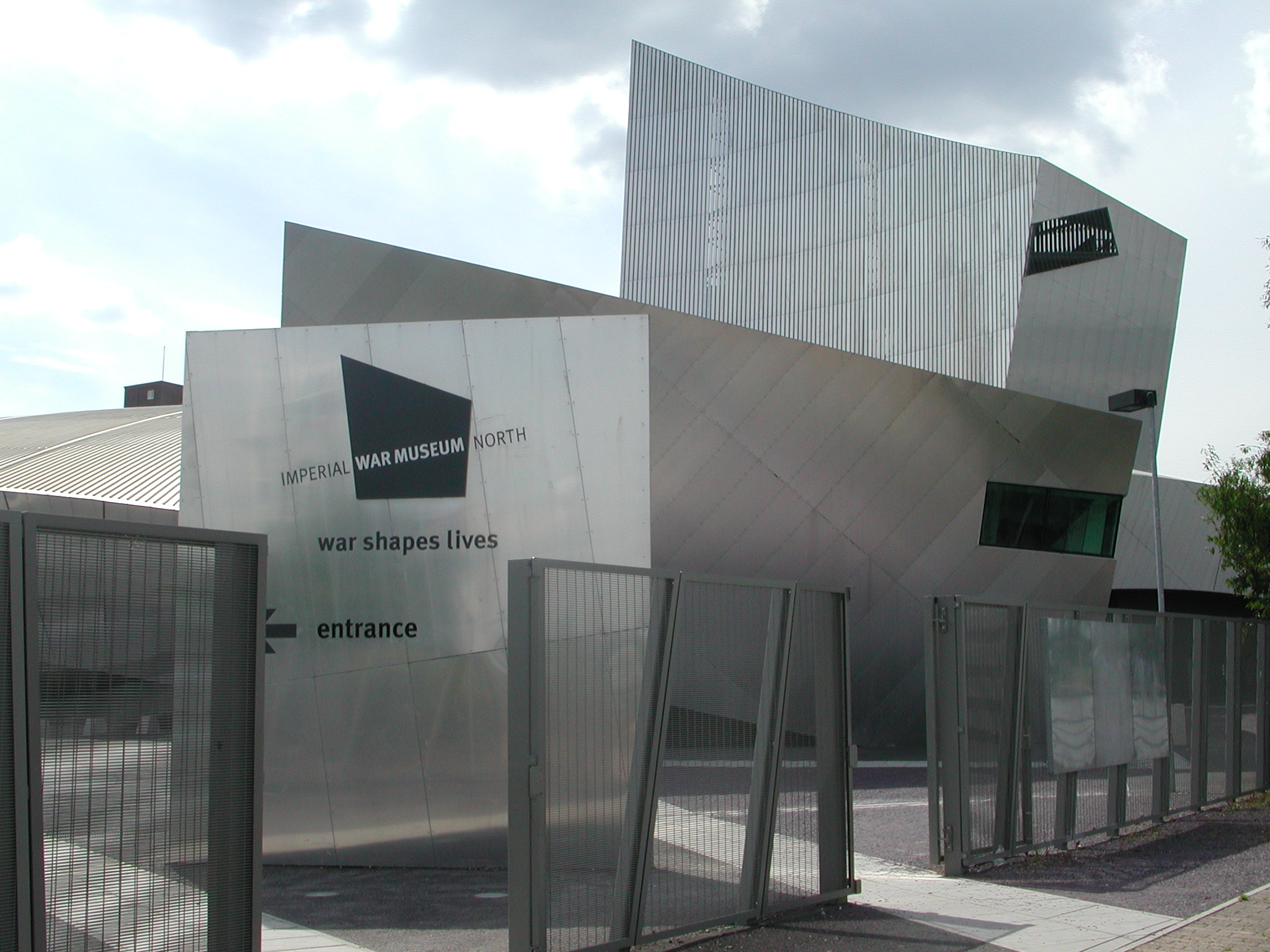 Imperial War Museum North